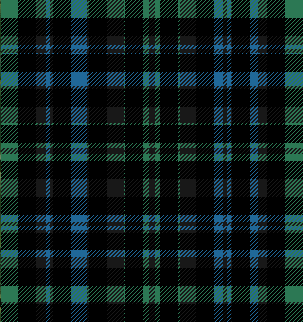 Free image of a tartan